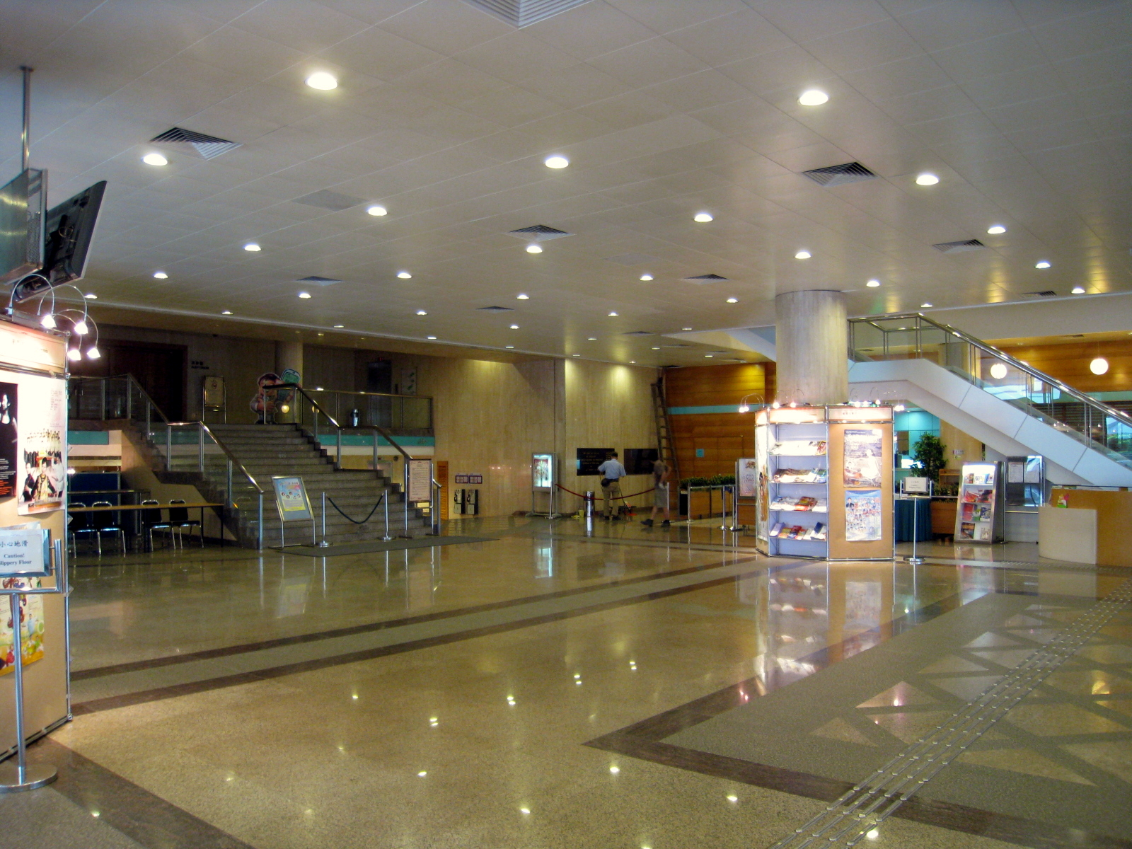 荃灣大會堂 Tsuen Wan Town Hall